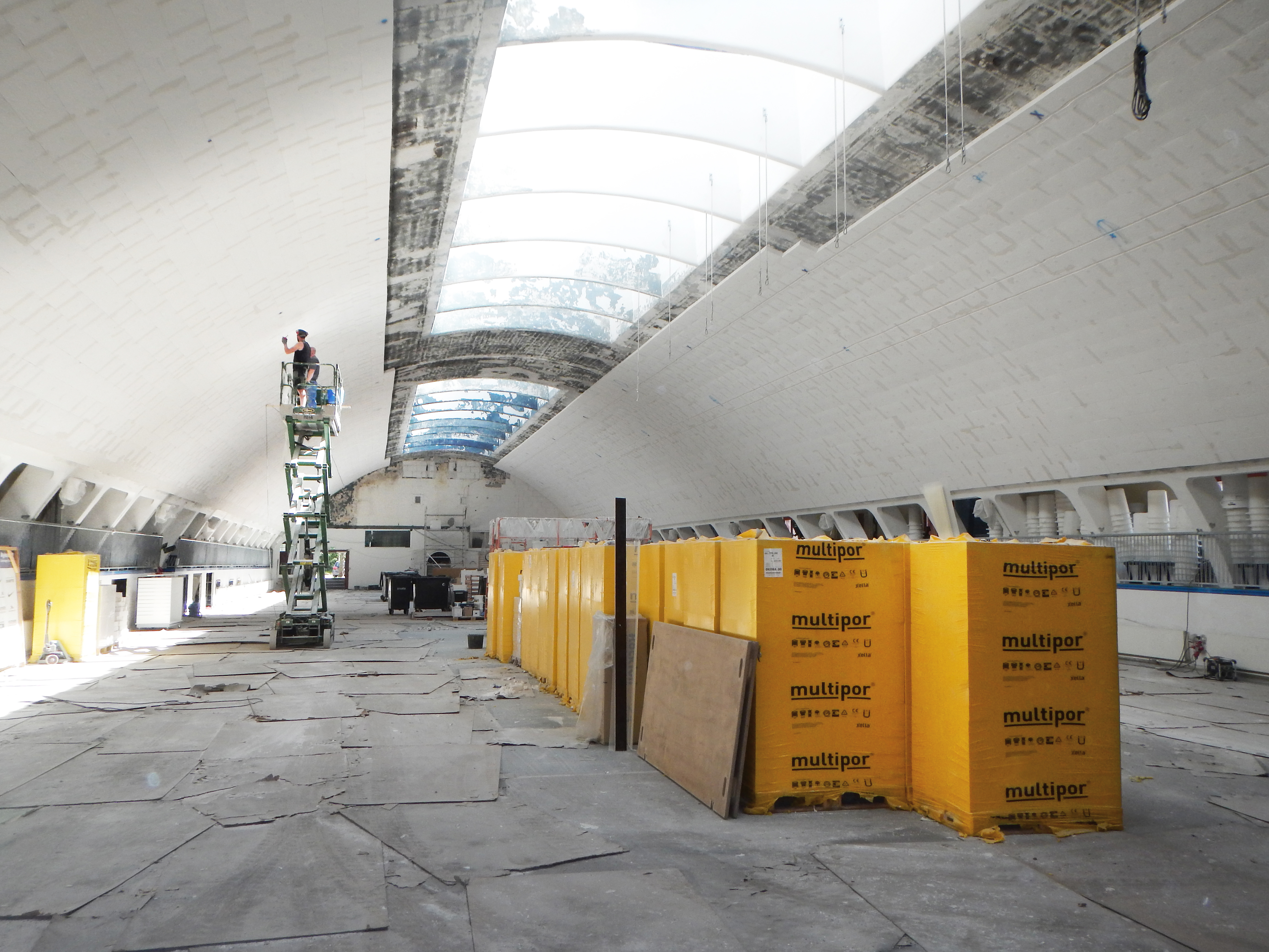 The tall arching walls are restored and energy renovated.